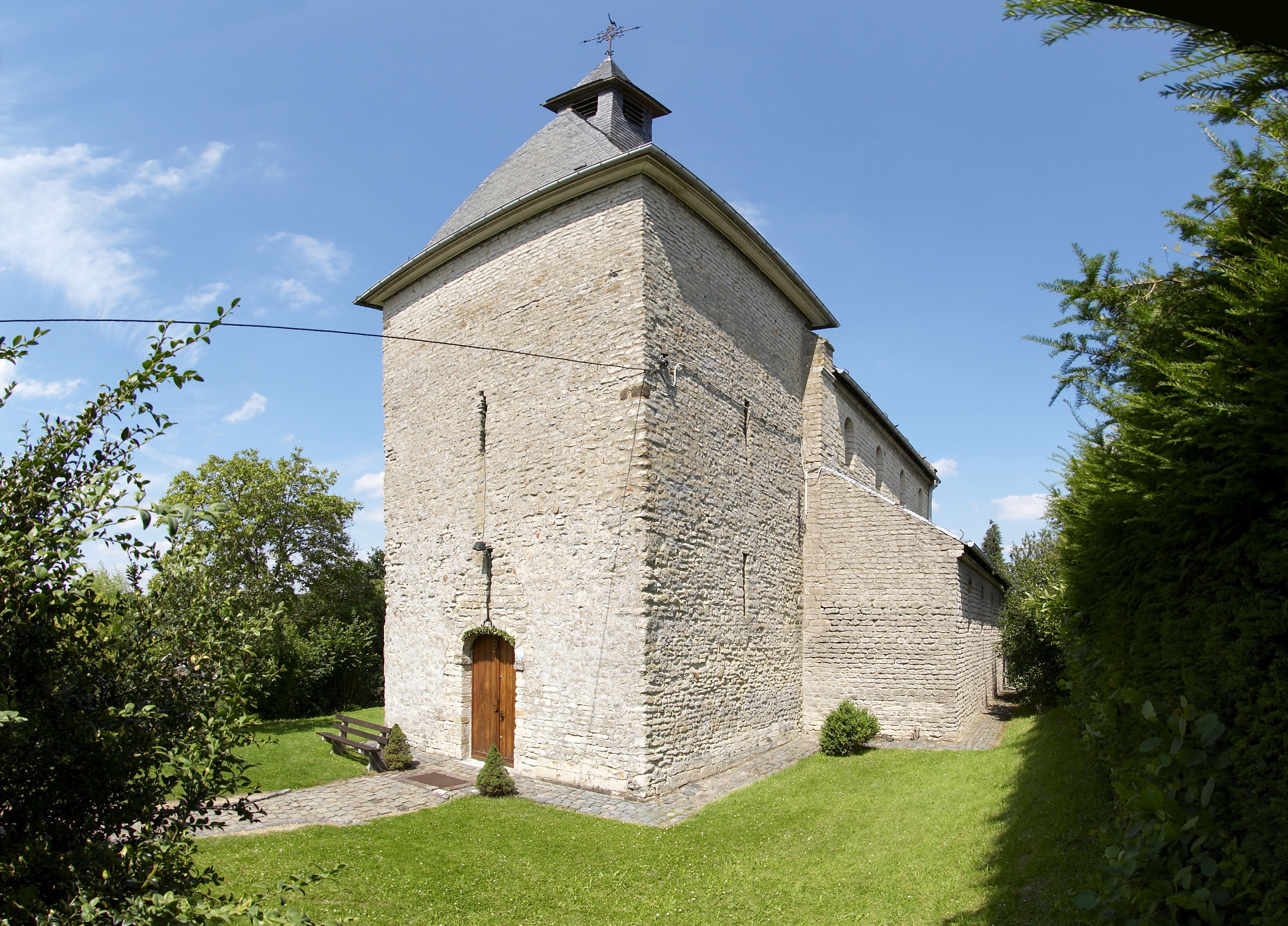 Sint-Verona chapel in Bertem, Belgium